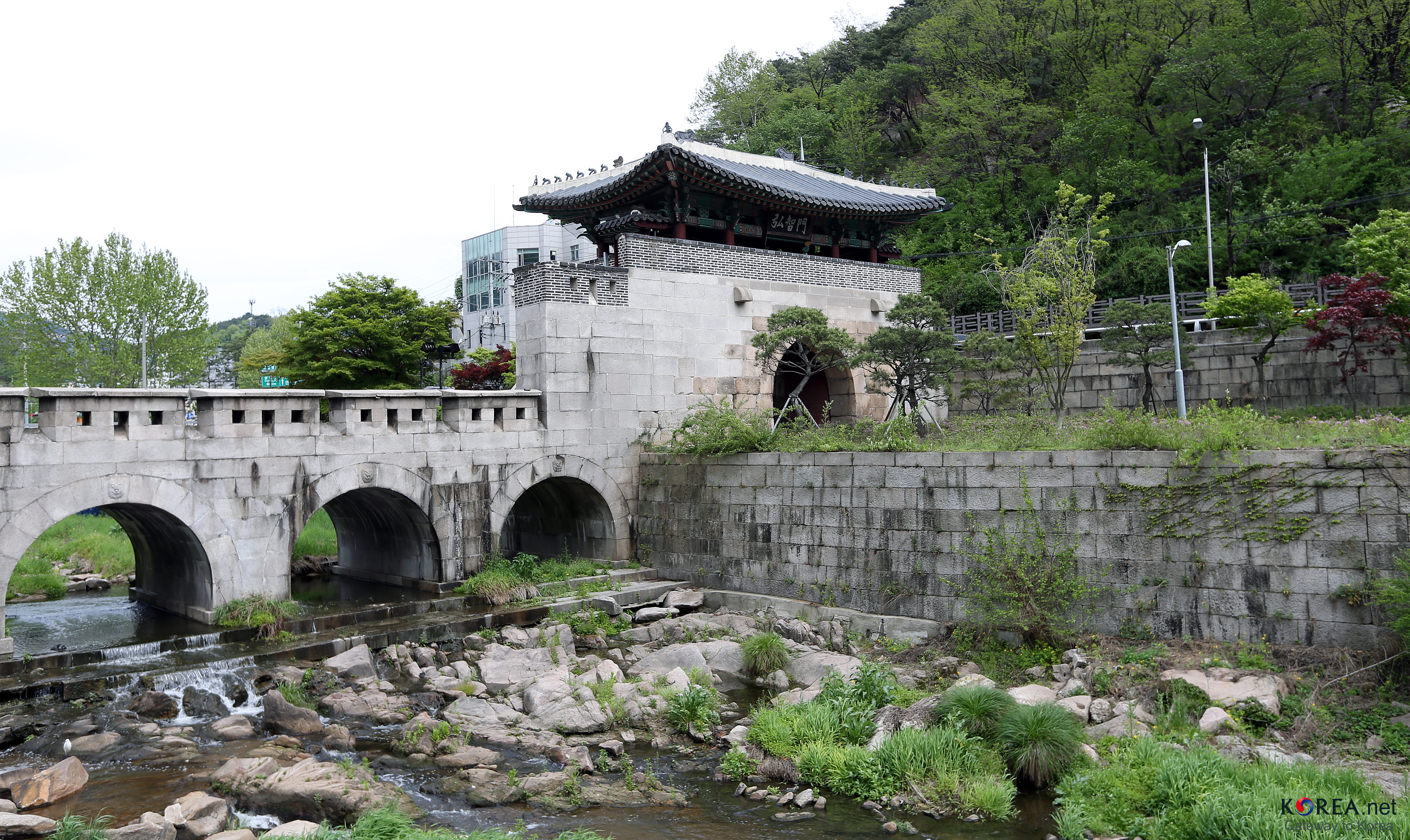 A rainy day in Seoul Hongjimun Gate and Tangchundaeseong Fortress This fortress was built in 1719 and provided a connection between Fortress Wall of Seoul and Bukhansanseong Fortress. The wall of the fortress was built to connect the two fortresses, and it corresponded with the square configuration of the ground between Fortress Wall of Seoul and Bukhansanseong Fortress. Indeed, this is a distinct characteristic of a Gwanmunseong Fortress. Hongjimun has a gate house with 3 Kan in front and 2 Kan on the side of the arch. It has a hip roop like other normal fortresses. Ogansudaemun, the water gate beside Hongjimu, used five arches as its opening for warter. 2014.04.29. Hongji-dong, Jongno-gu, Seoul Ministry of Culture, Sports and Tourism Korean Culture and Information Service ( JEON HAN